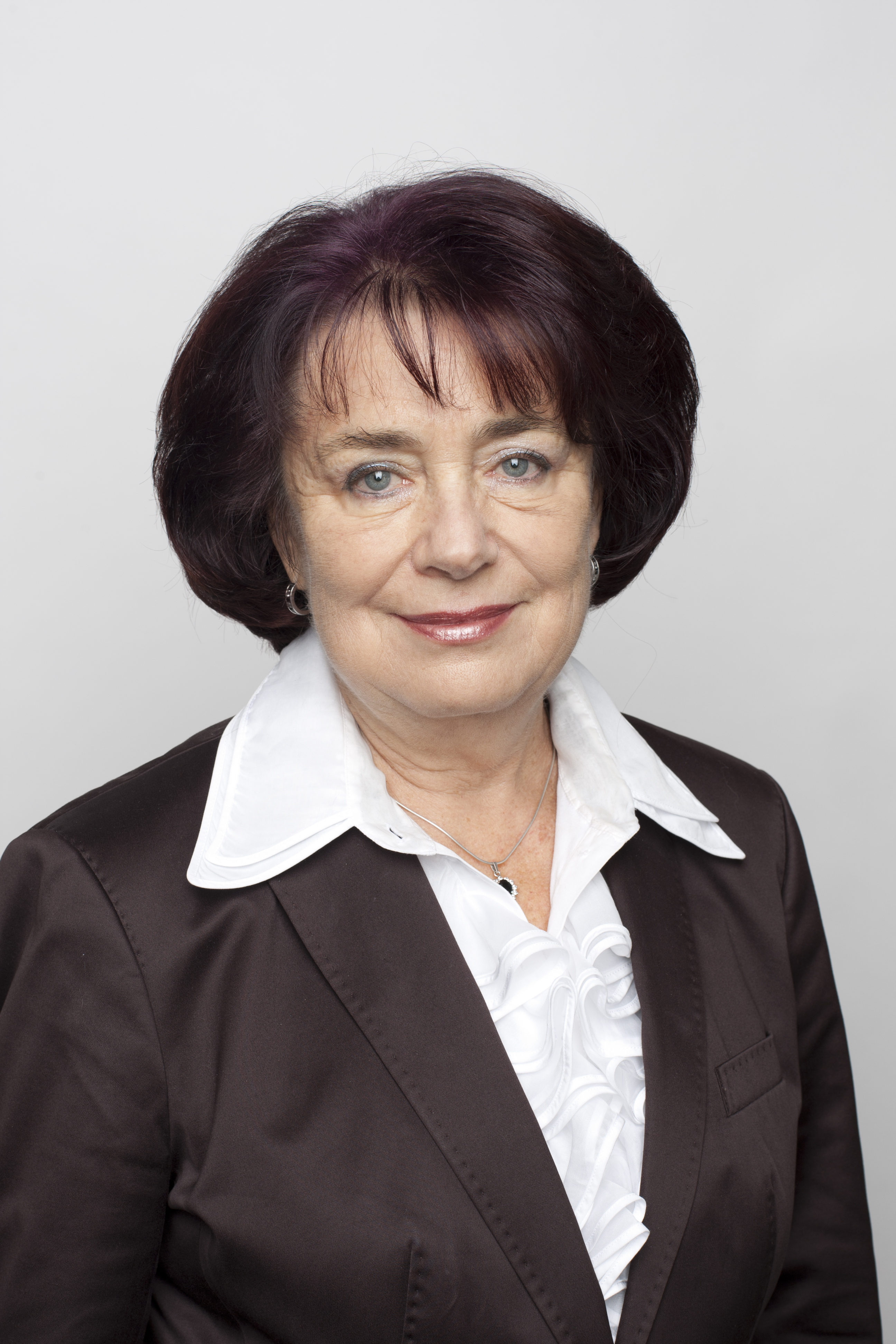 Czech doctor, scientist and politician Prof. MUDr. Eva Syková, DrSc., FMCA, from 2012 member of the Senate of the Parliament of the Czech Republic